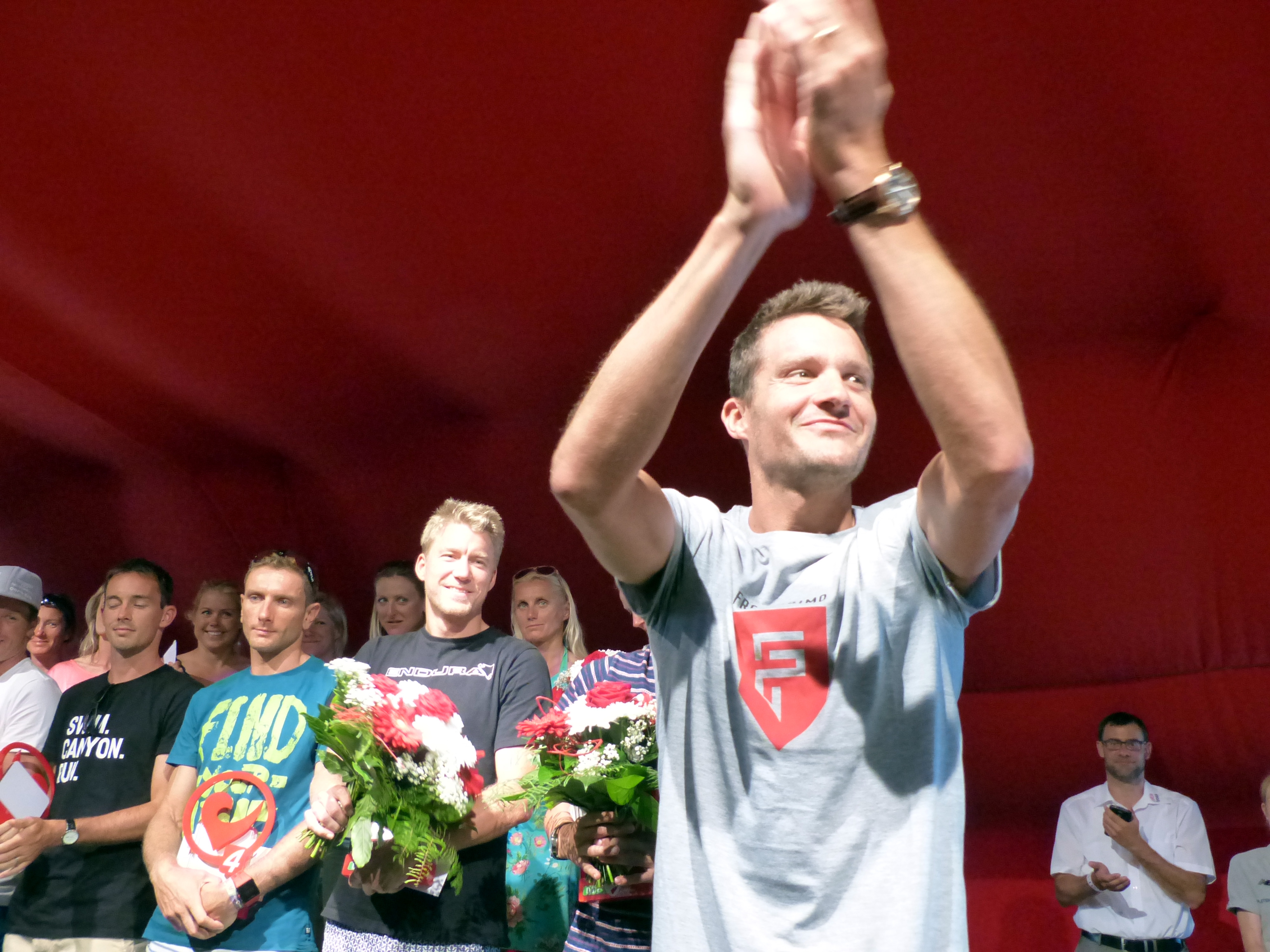 Jan Frodeno Roth 2016